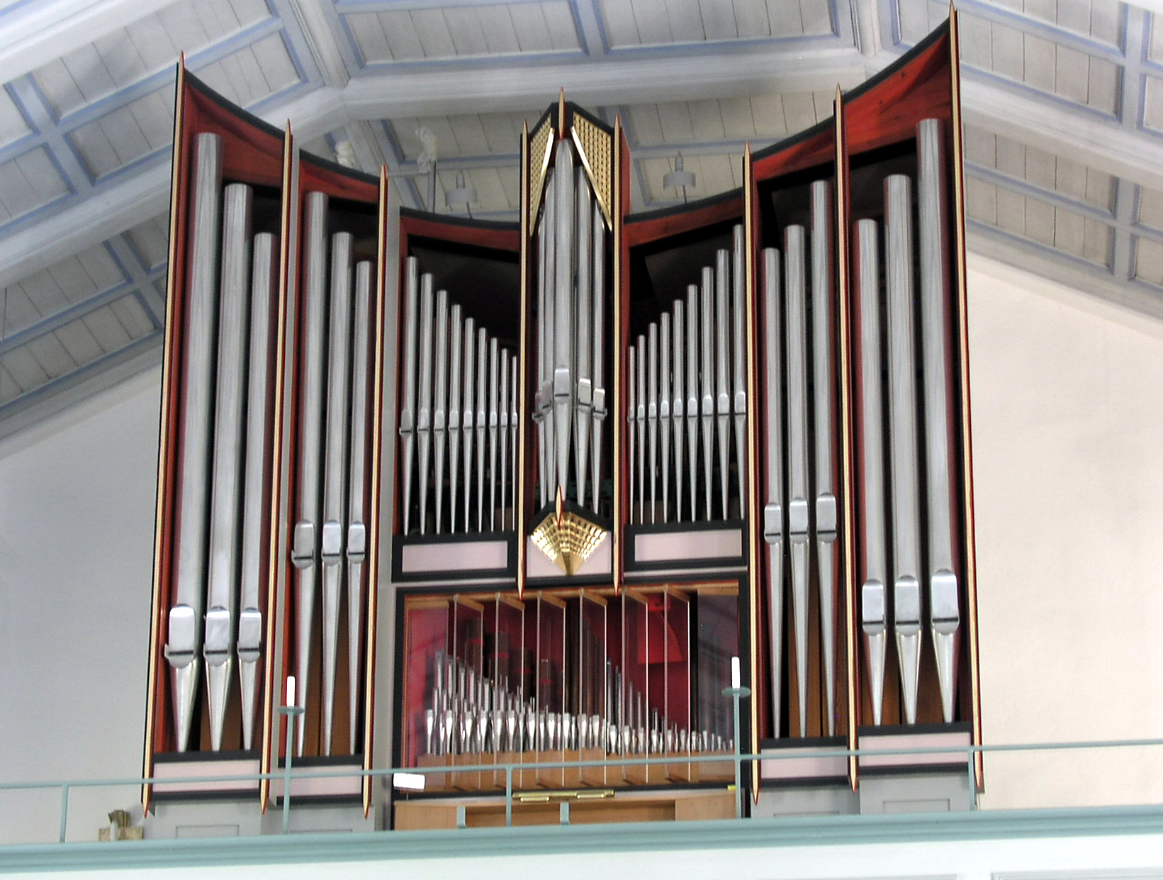 Sturkö church. Church organ. The picture was taken by Håkan Svensson (Xauxa) the 6th of August 2005.